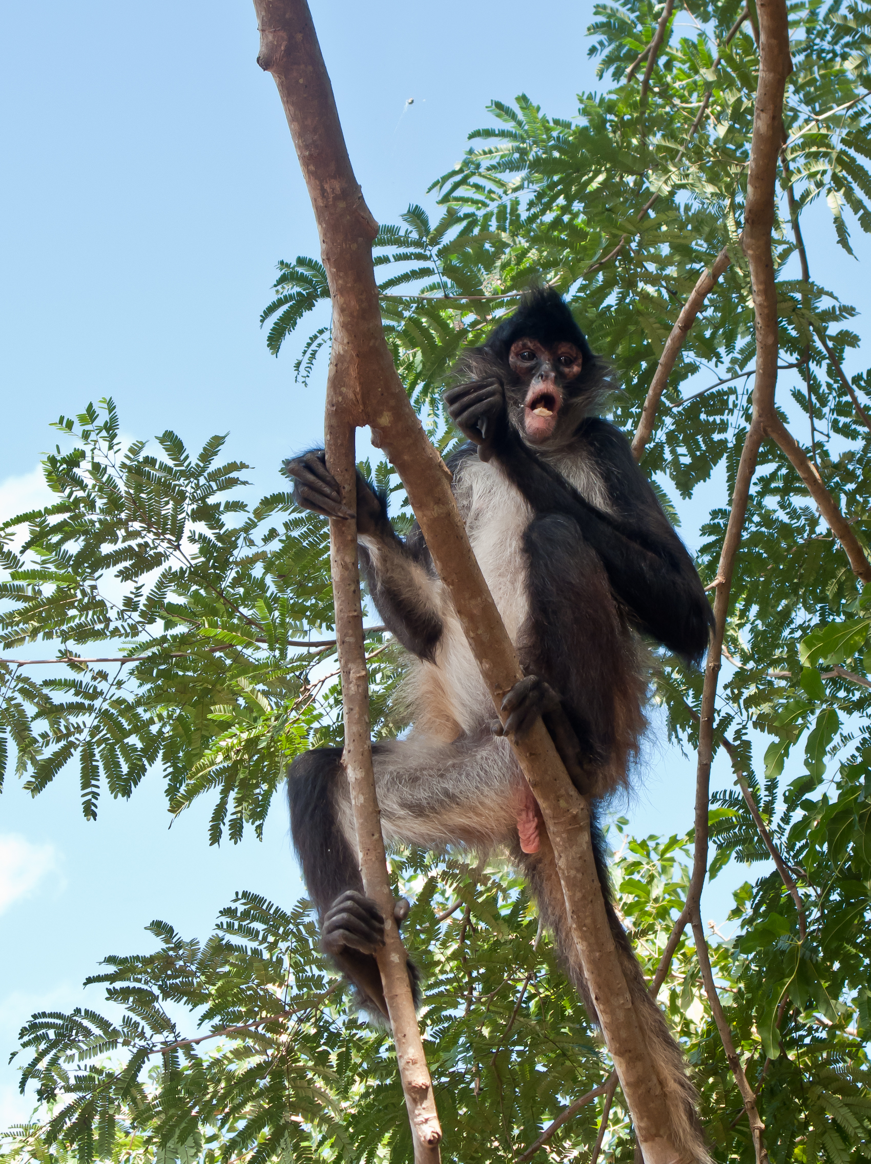 Spider monkey eating a banana, Quintana Roo, Mexico